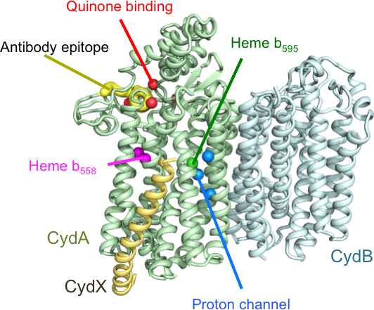 Predicted structure of E. coli CydABX (Cytochrome bd-1) complex. Spheres indicate ligands or conserved residues. Member of OPM Family 805. More data at GREMLIN.